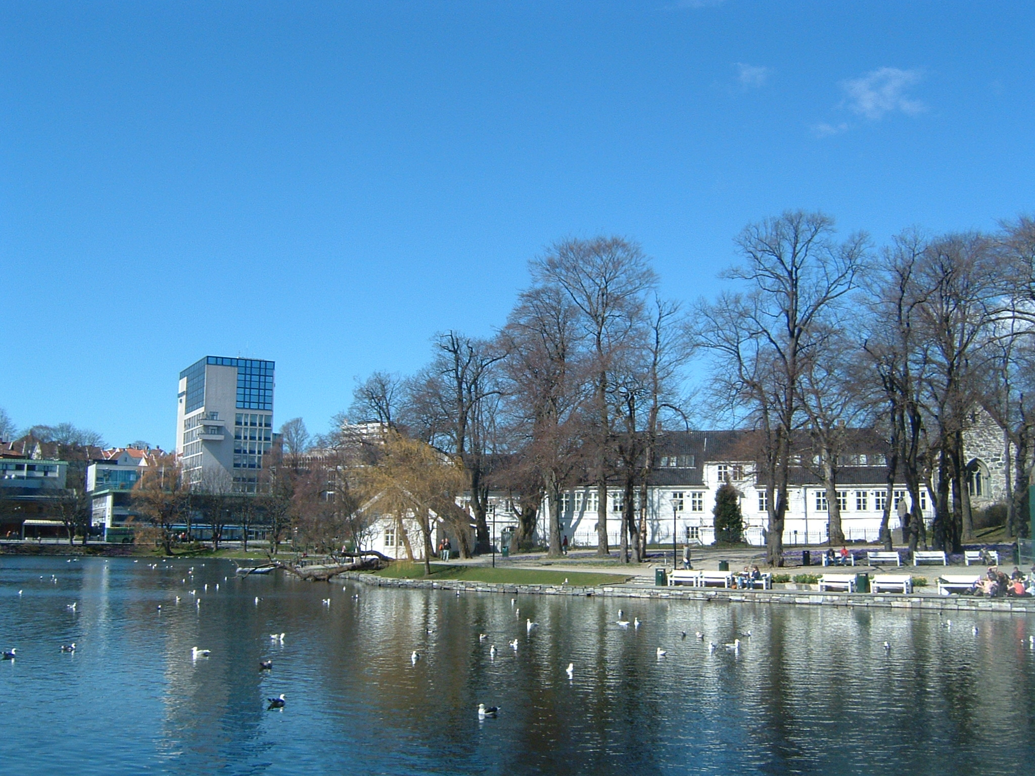 Park in the middel of Stavanger. Picture was taken 28. april 2006 by Hallvard Nygård (aka futti).